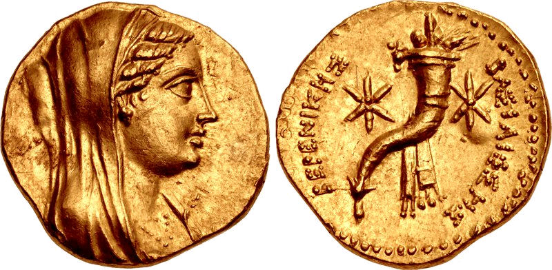 Berenike II coin